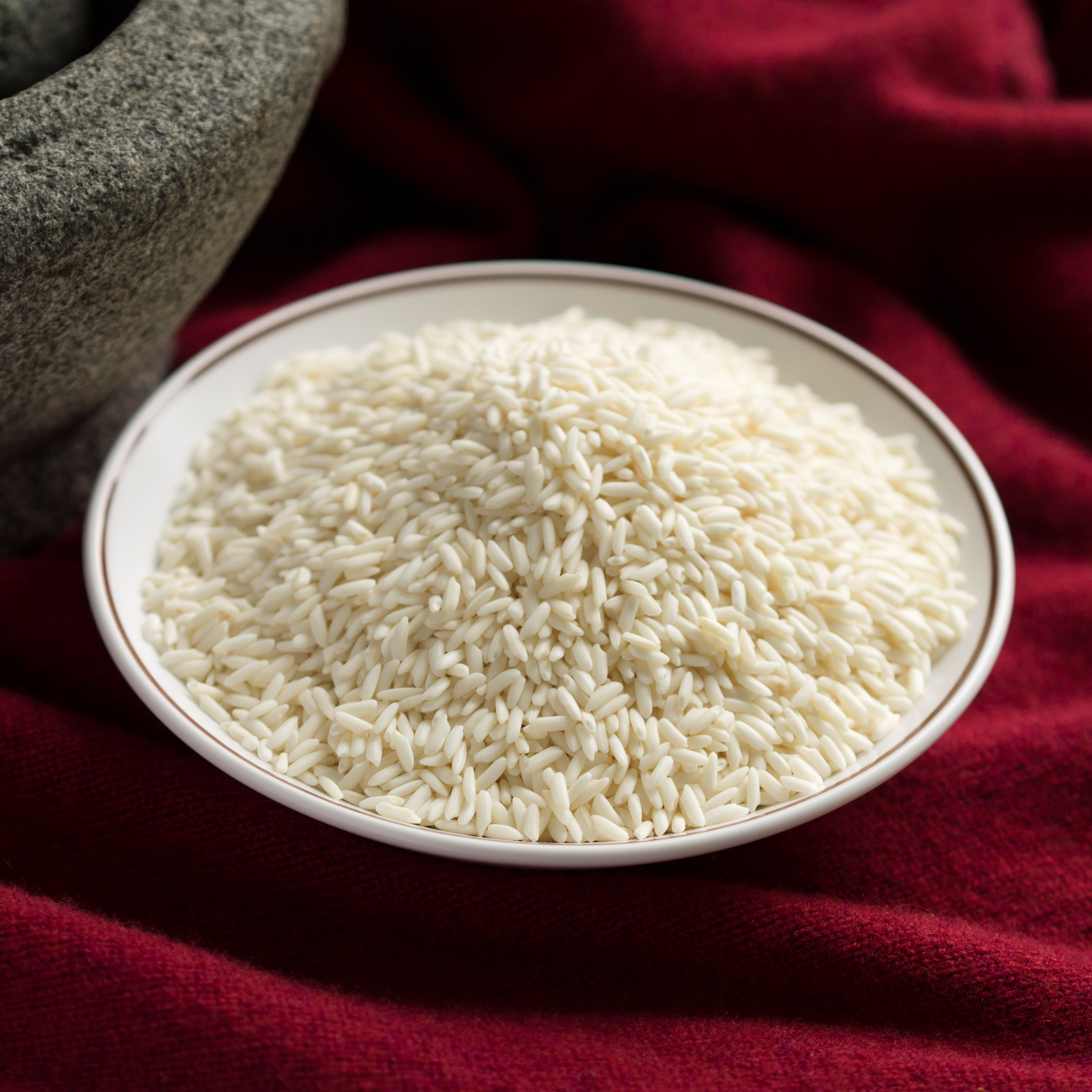 The colour balance of this image was correctly established as to show the exact colour of the rice.